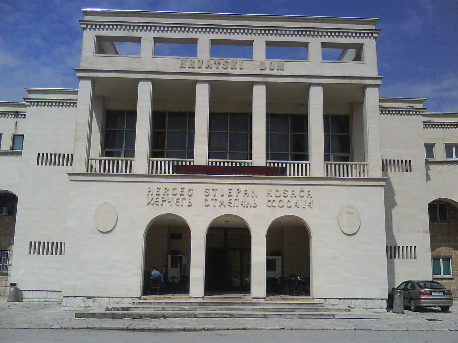 Croatian Home of Herceg Stjepan Kosača ,west Mostar